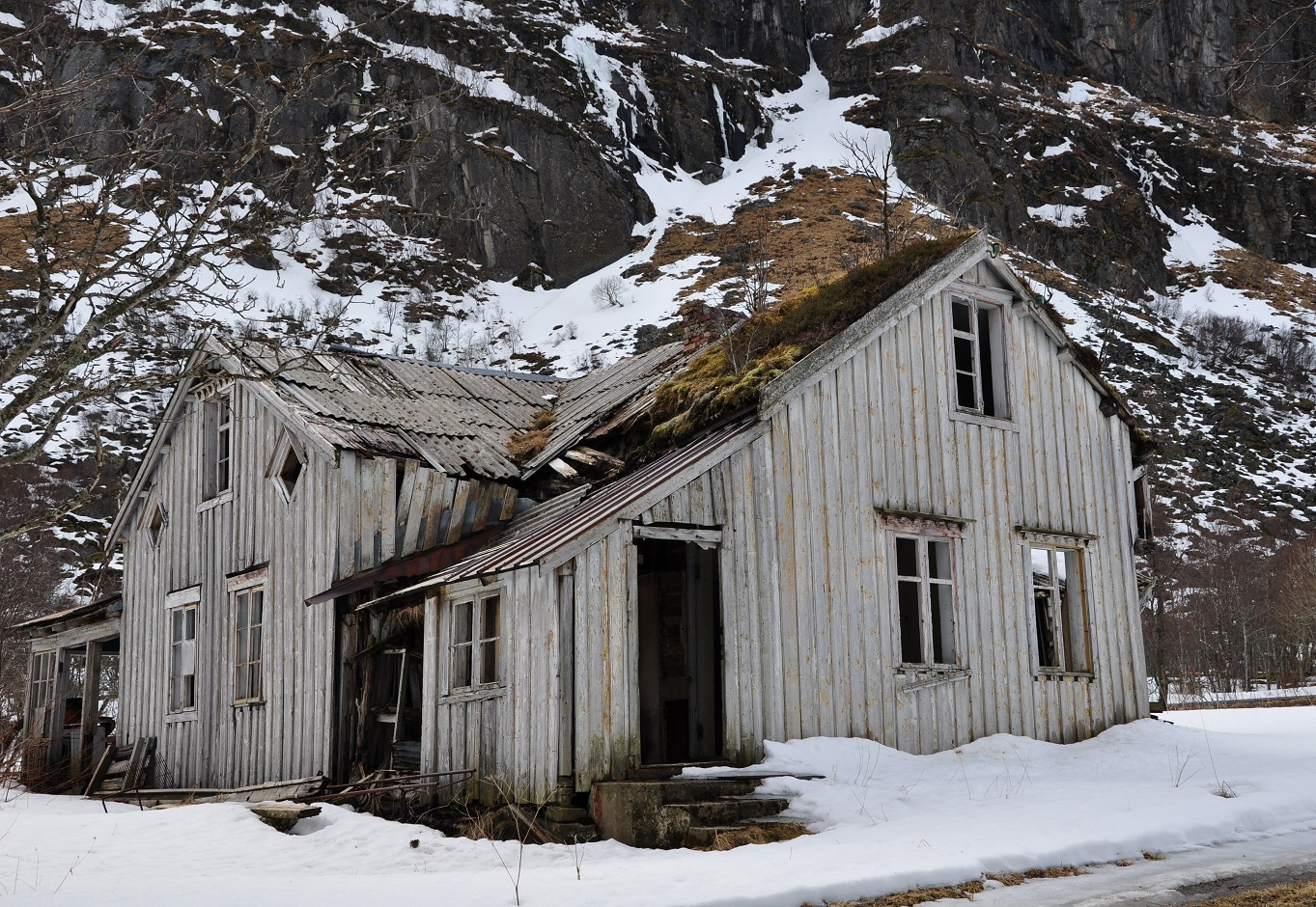 Abandoned house in Gimsøysand, Gimsøy Island, Lofoten, Norway.JPG